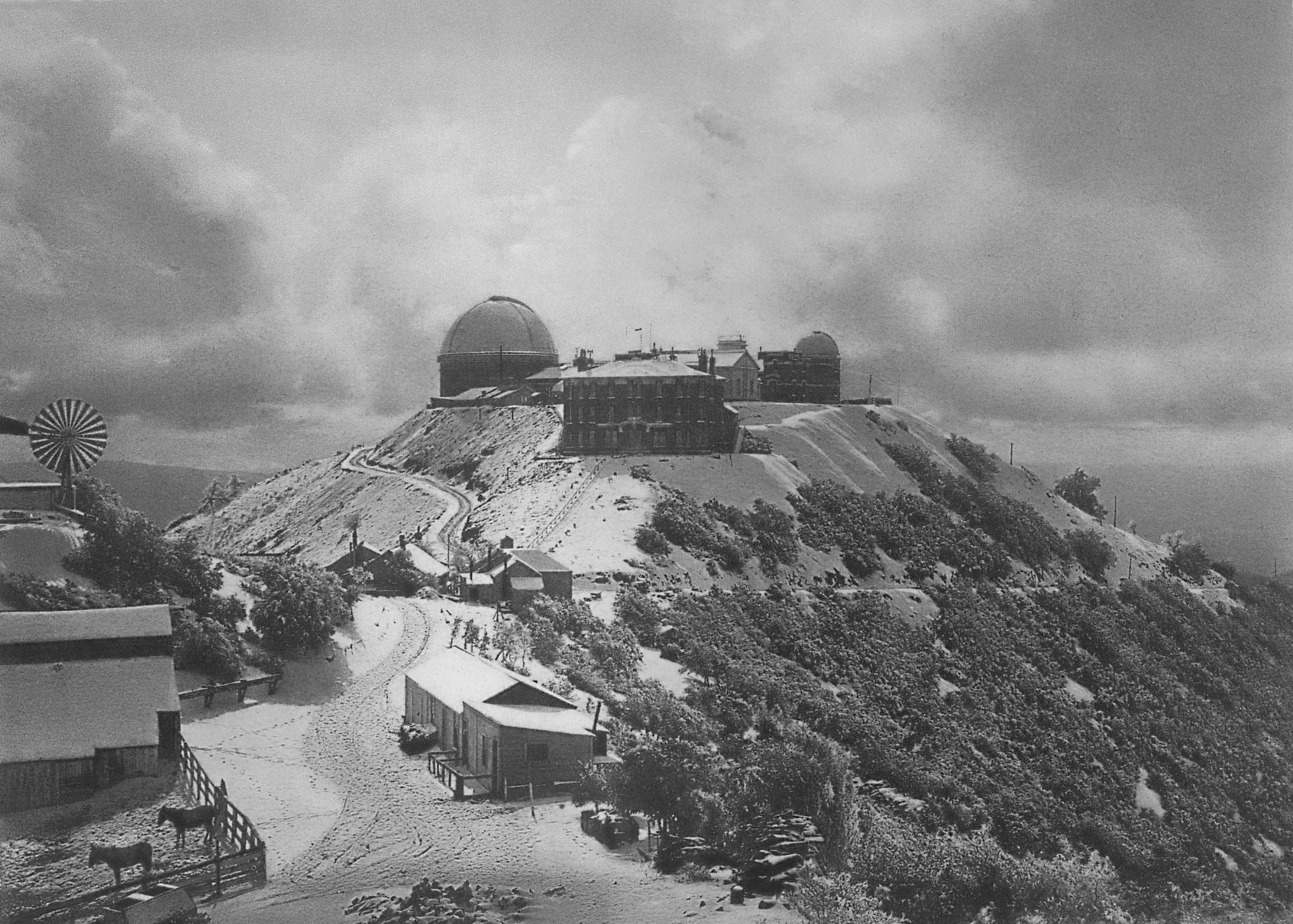 The Lick Observatory. Photogravure from a photograph.